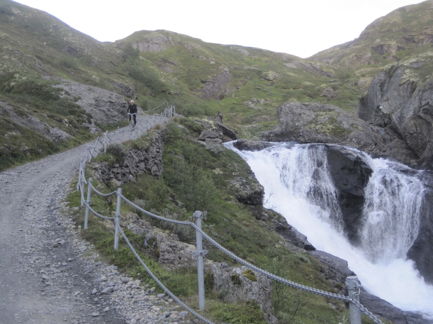 The Rallarvegen trail in Norway, down the Klevagjelet gorge.